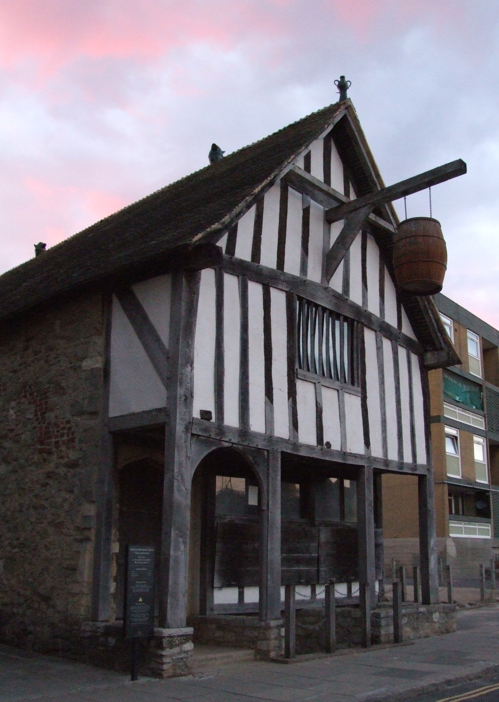 Medieval Merchant's House, Southampton, Hampshire, England